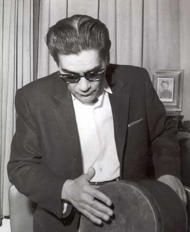 Hossein Tehrāni (1912-1974), Iranian musician. He is considered as the father of the modern Tonbak.